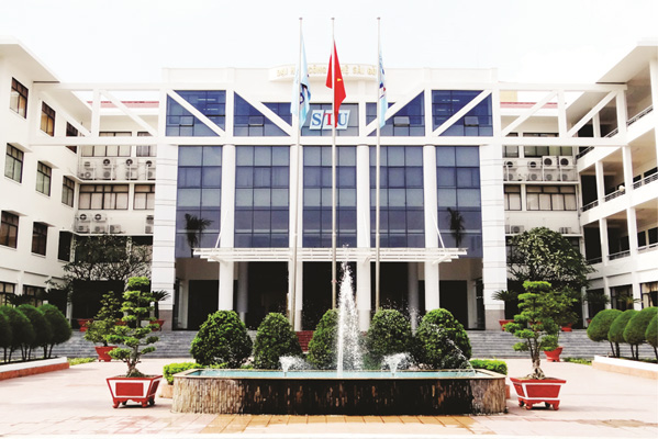 STU